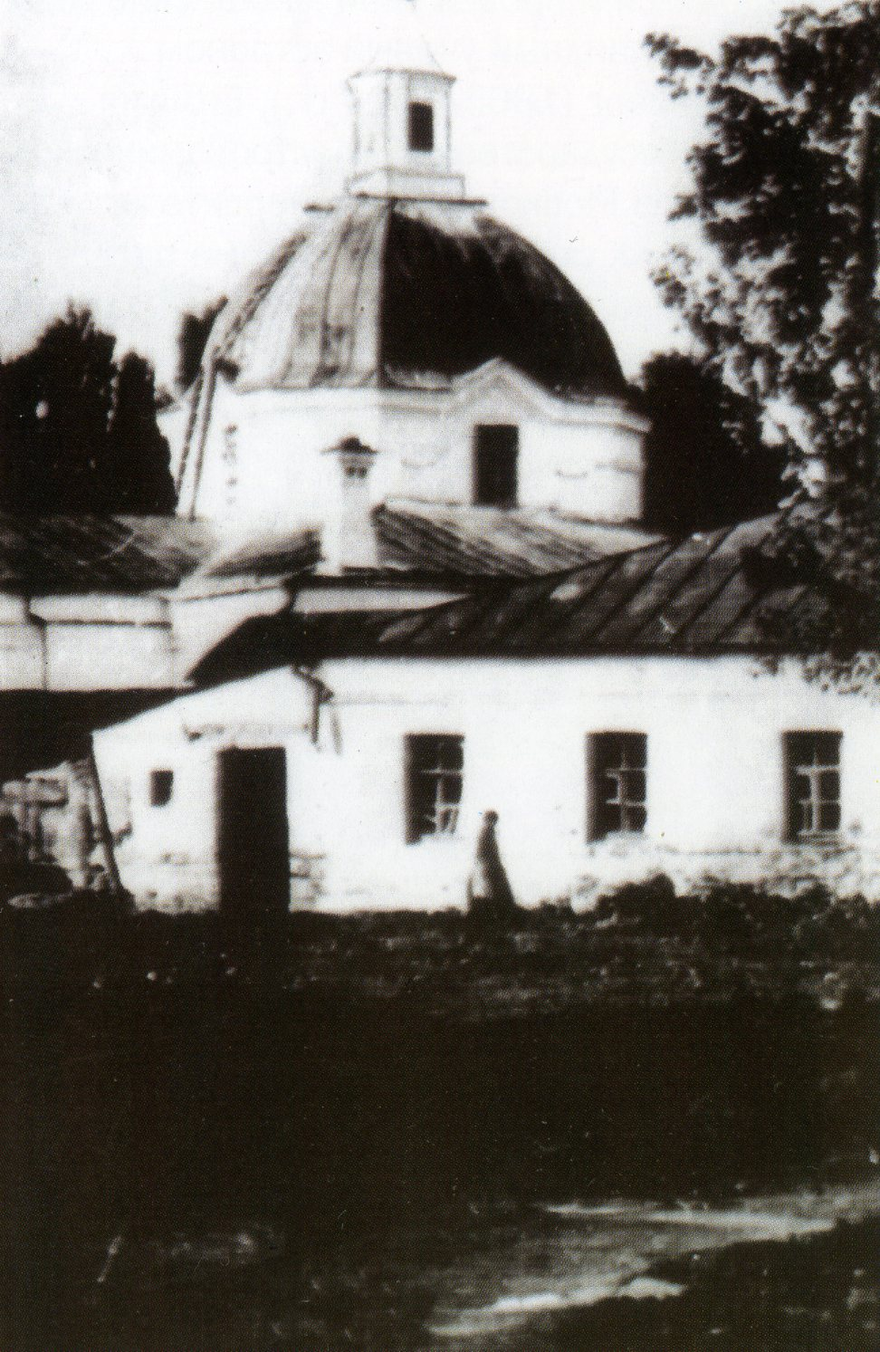 Borisoglebsky church in Oryol